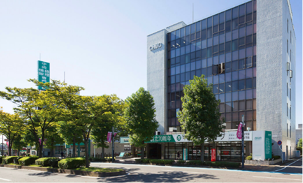 building